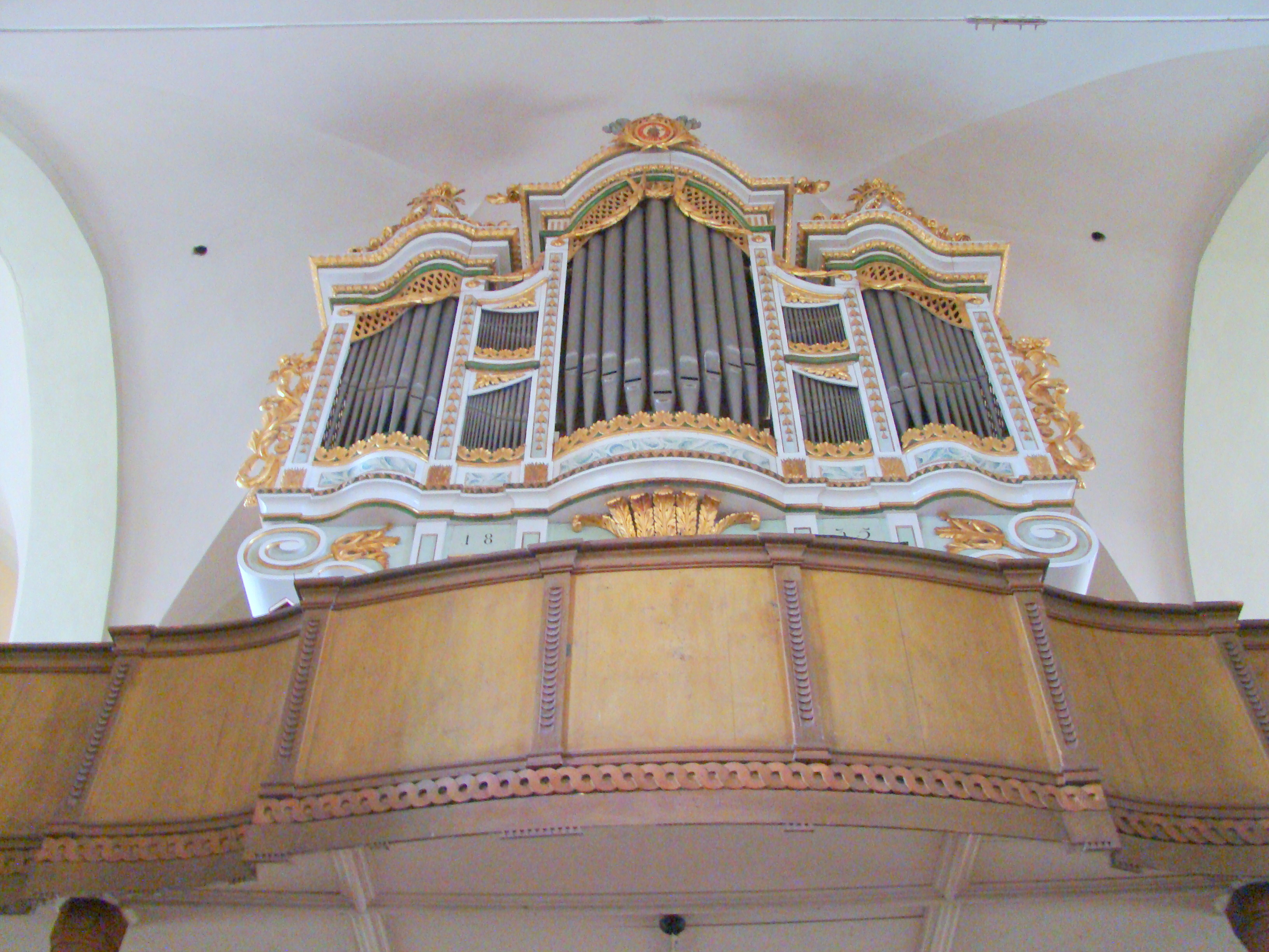 Lutheran church in Hălchiu, Brașov County, Romania